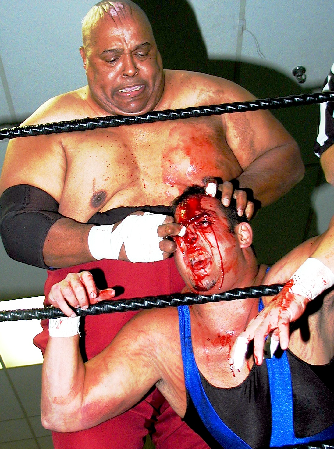 Abdullah the Butcher in a match against Andy Ellison in Côte St. Luc, Quebec, in 2004. I took the photo.